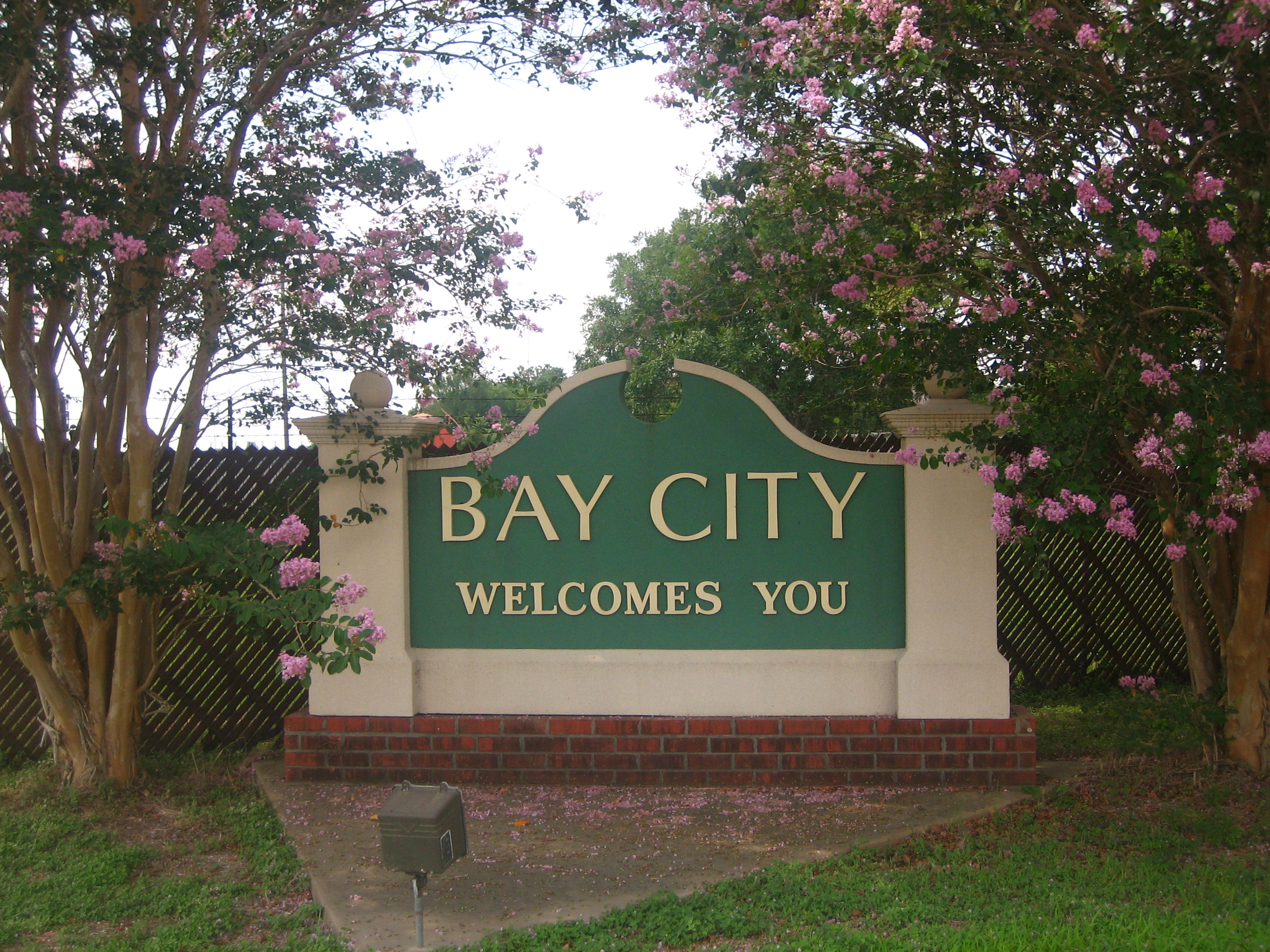 Welcome sign of Bay City, Texas, USA